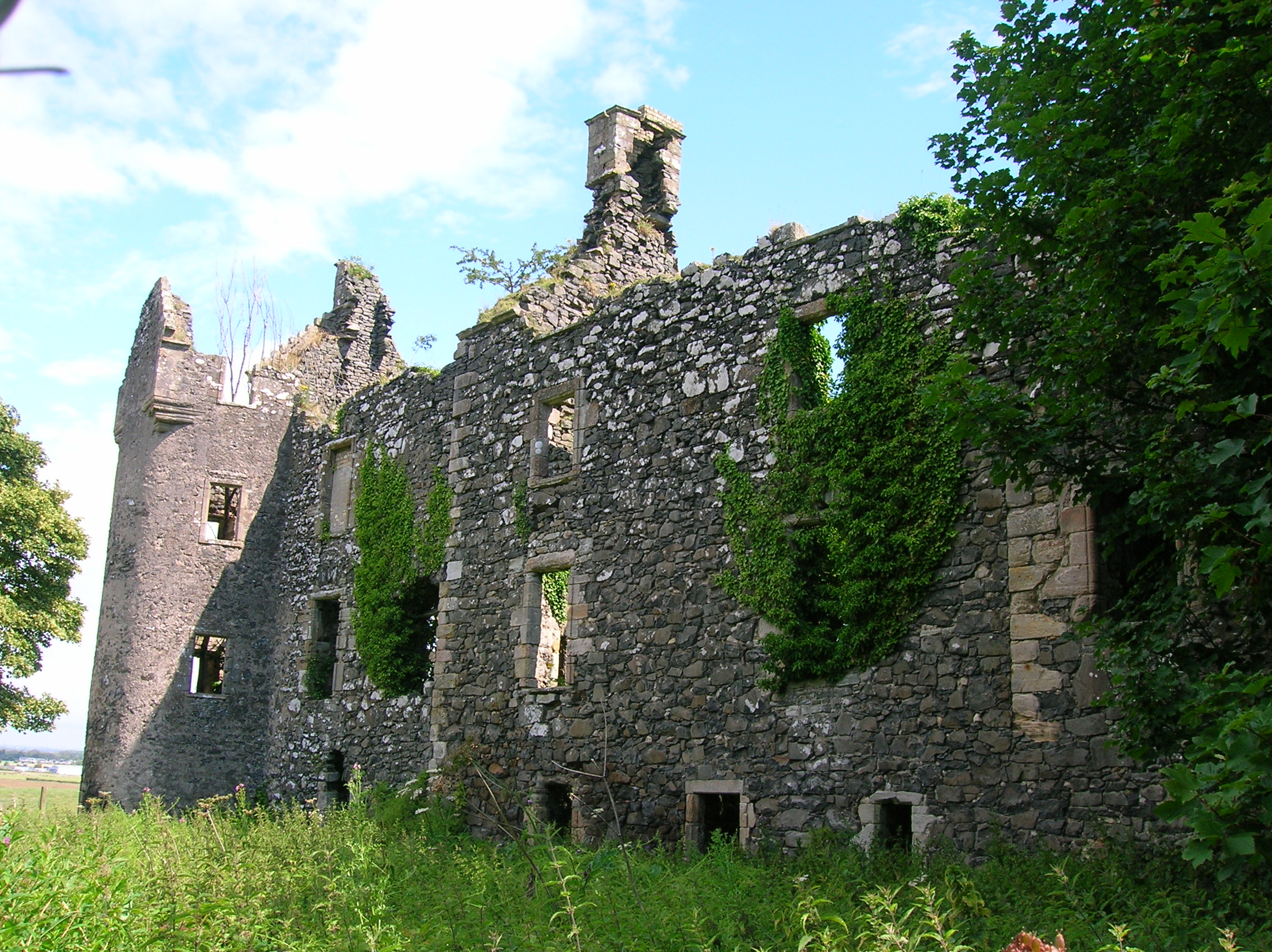 Auchans Castle, East Ayrshire, Scotland